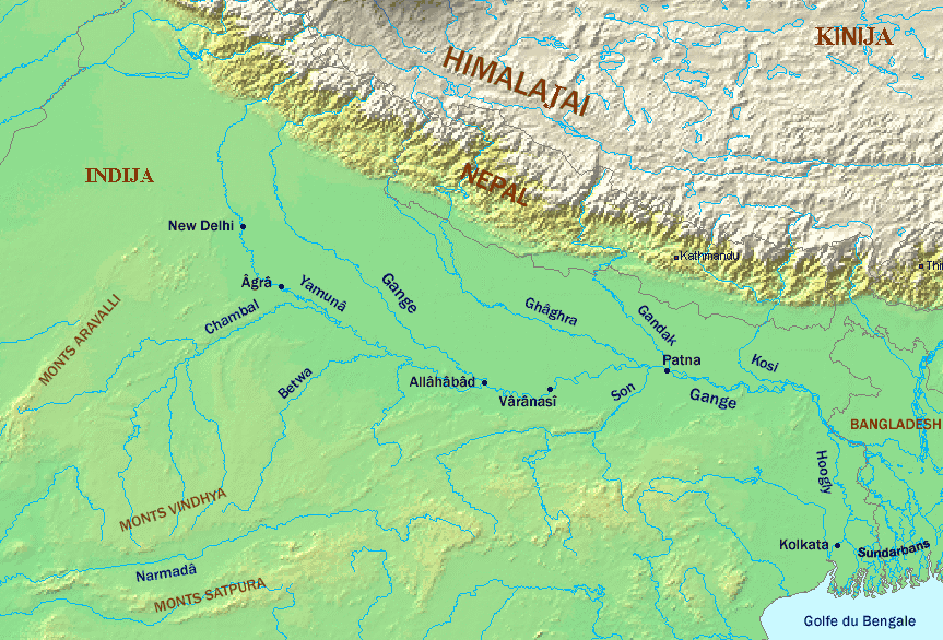 Source of map: (mention : "Disclaimer: With this statement DEMIS BV grants you permission to freely copy the PNG images returned by our server and use them for your own purposes, including web pages. We would appreciate a reference to our server but such a reference is not required, nor do we take responsibility for the accuracy or quality of the maps". at *Uploaded to French Wikipedia by Nataraja *Licensed under GFDL by Nataraja Image history of Image:Cours gange.png (suppr) (actu) 11 mai 2005 à 13:57 . . Nataraja . . 863x586 (182492 octets) (suppr) (rétab) 4 juin 2003 à 09:06 . . Nataraja . . 489x273 (21543 octets) (Le cours du gange)